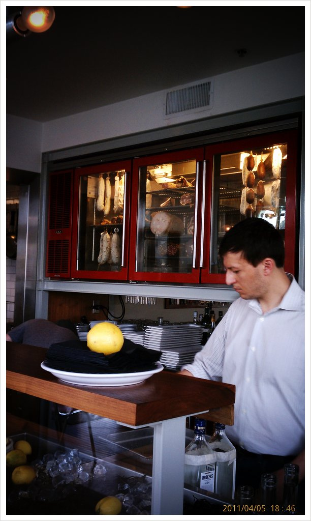 Taken inside of Adesso, a restaurant in Oakland, California.